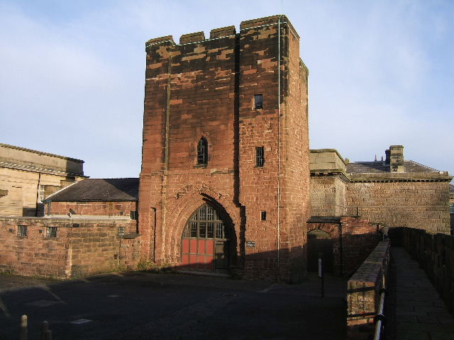 The Agricola Tower The Agricola Tower or Caesar's Tower as it is sometimes called, has nothing to do with the Romans.It dates from the 12th. century and was part of the general rebuilding of this part of the castle at that time.